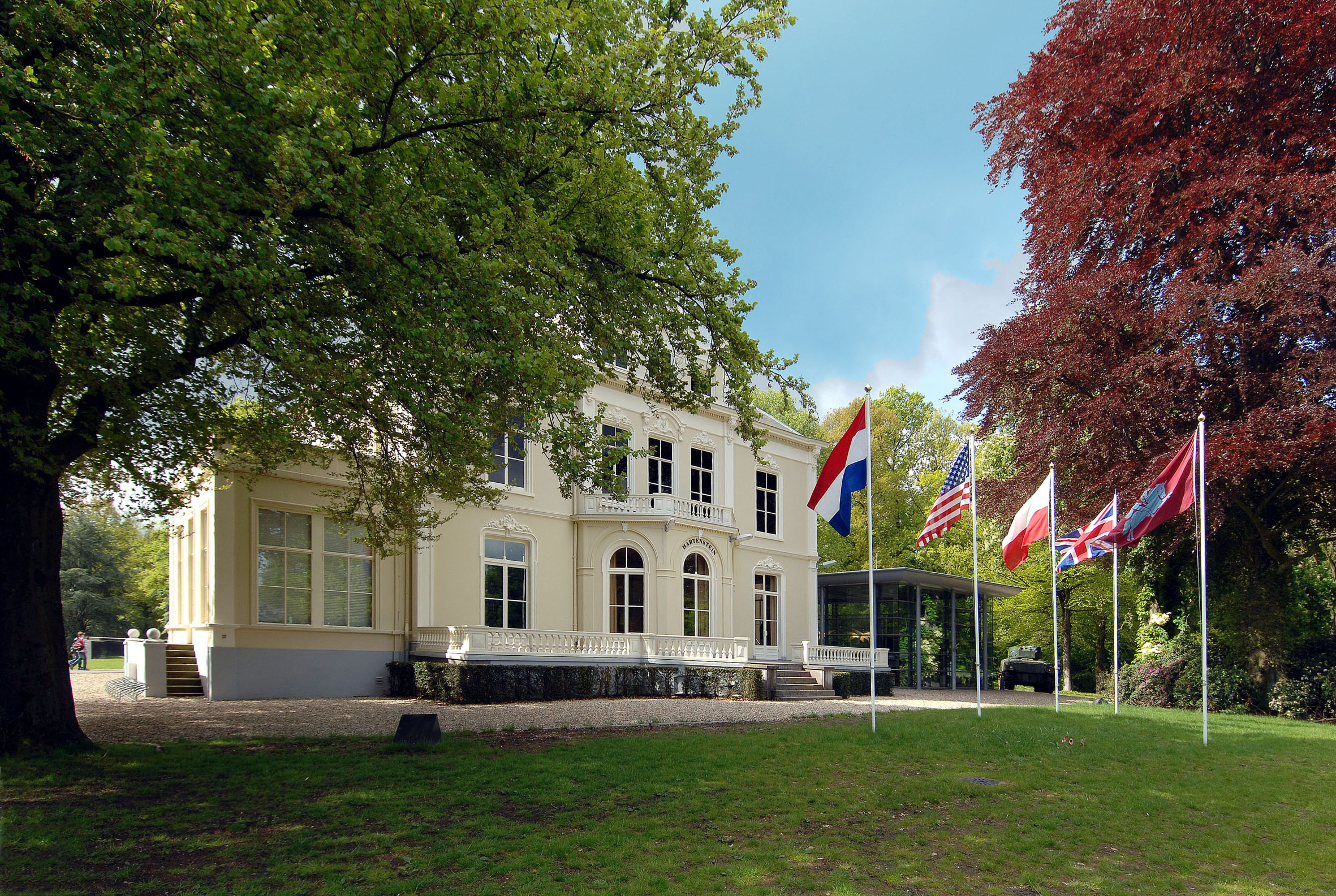 Front Airborne Museum 'Hartenstein'